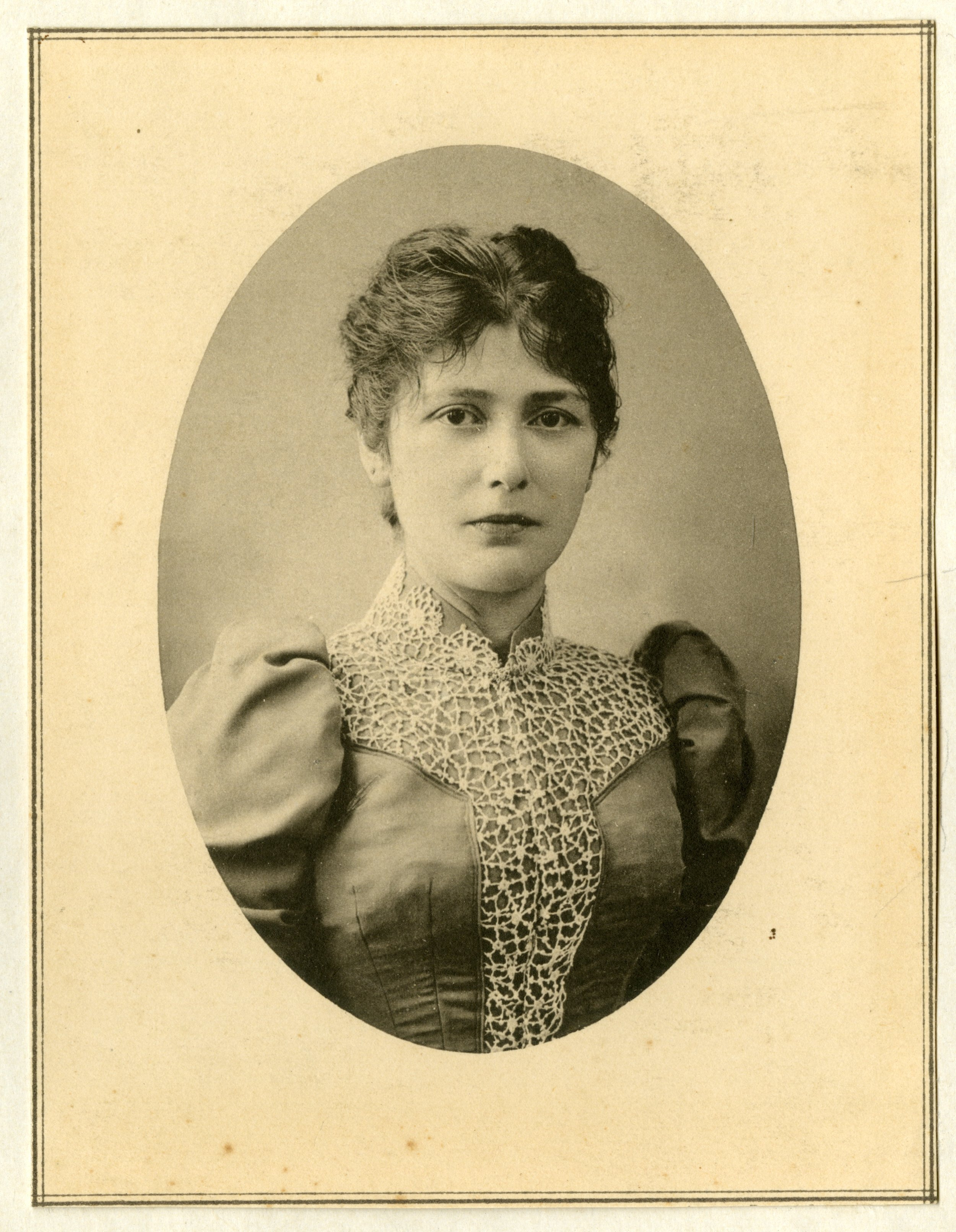 Suze la Chapelle-Roobol (1855-1923), roman- en toneelschrijfster